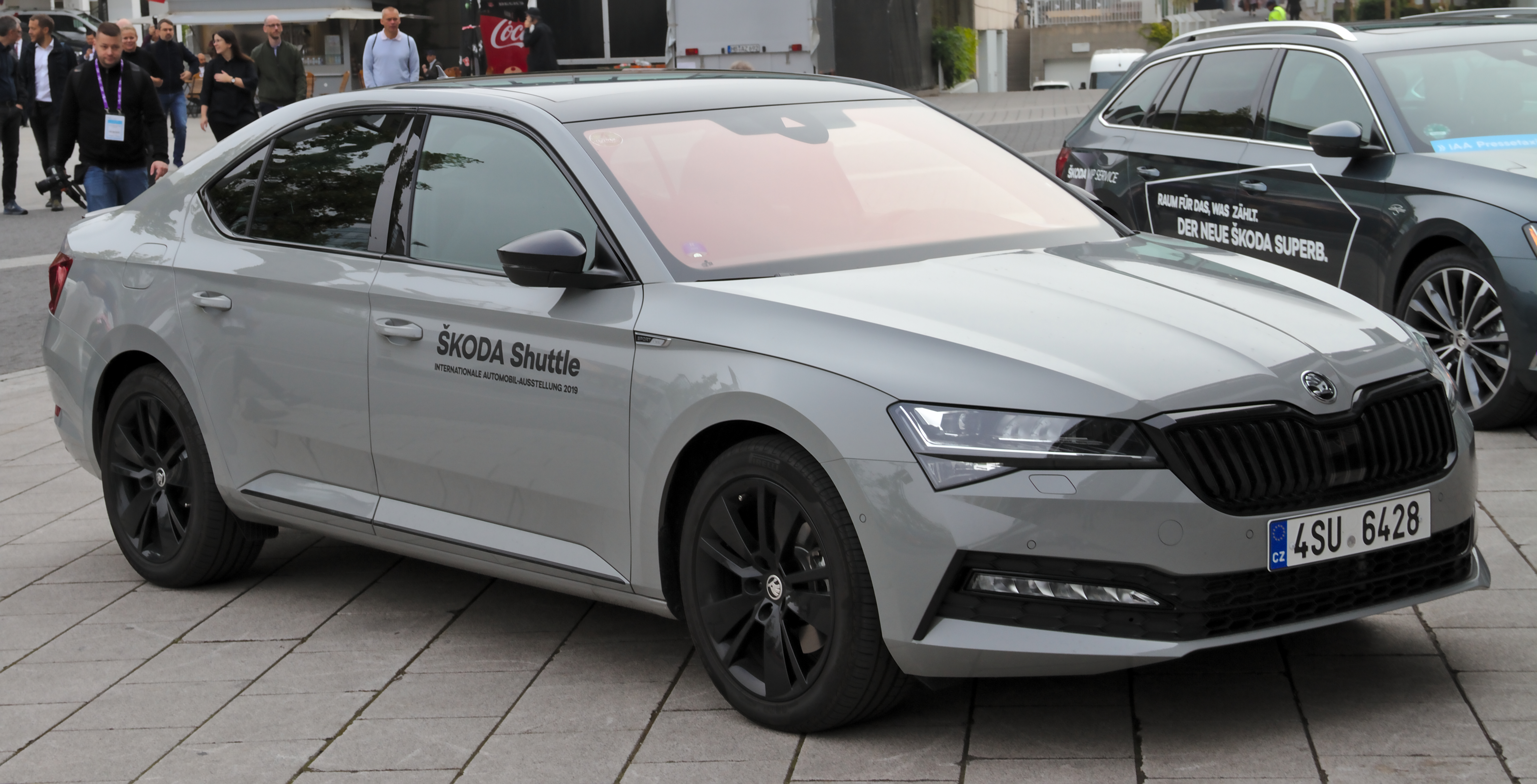 Škoda Superb III at IAA 2019